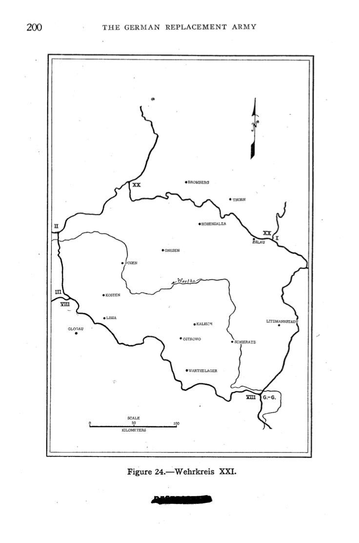 Map of the Wehrkreis, Military District, XXI.